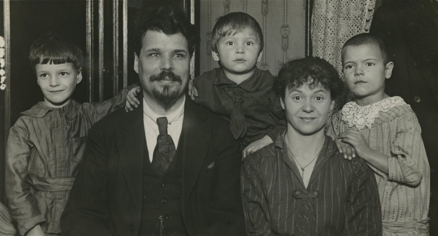 Serge Trufanoff - "The Mad Monk Iliodor" - with his wife and his three children: Sergius, aged seven; Hope (Nadezhda), aged five; Iliodor, aged four. The youngest is a native of America, having been born on his parents first visit in America, in 1916